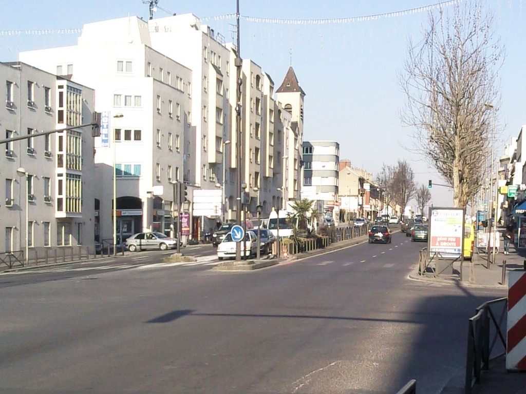 Le Bourget - La RN2 (avenue de la Division Leclerc)